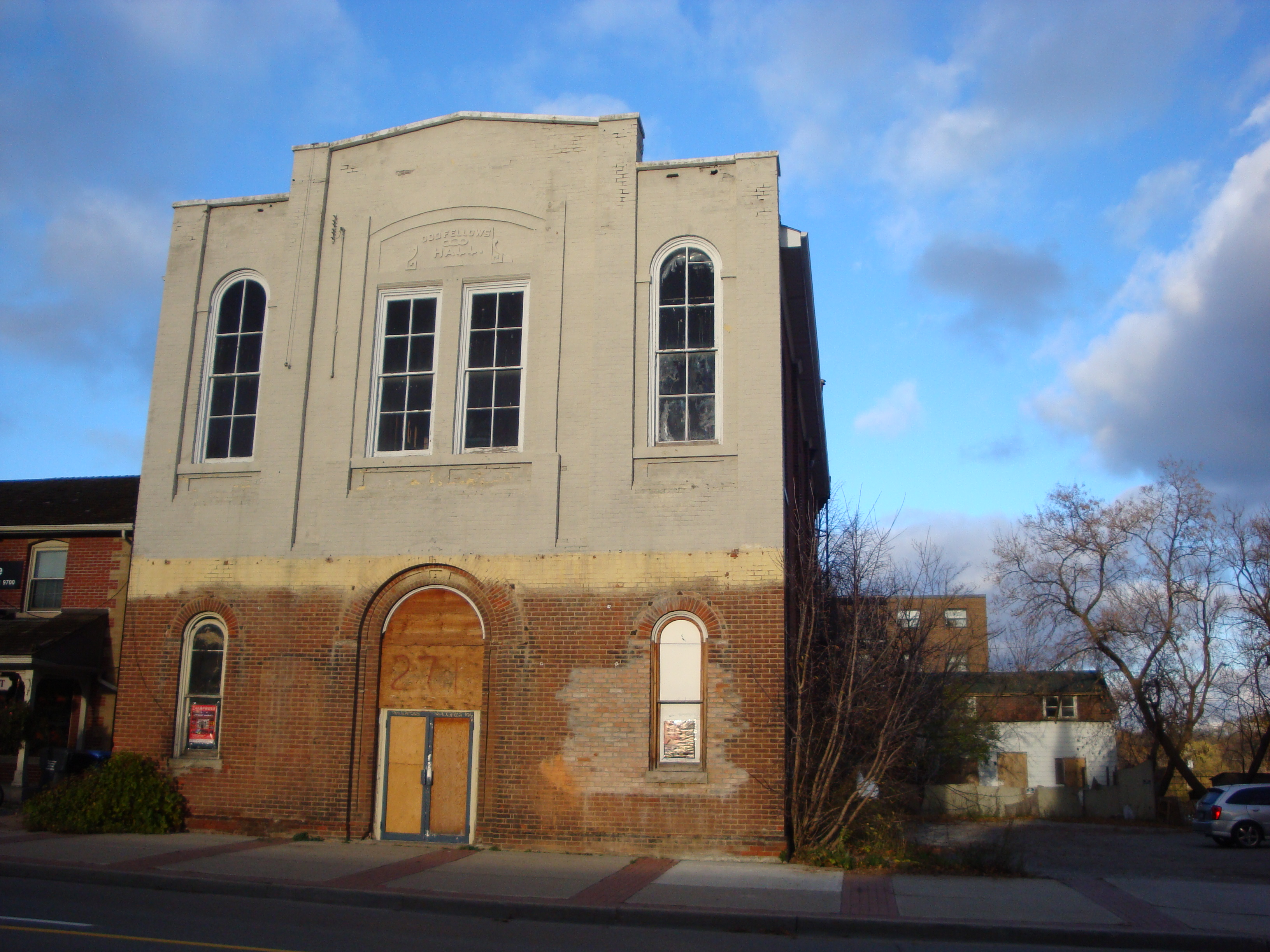 Odd Fellows’ Hall, 271 Queen Street South, Mississauga, Ontario, Canada. This hall was built by the Odd Fellows fraternal society in 1867 to serve as a meting place. Several concerts, dances and banquets were organized here, before the Odd Fellows sold the hall in 1972.